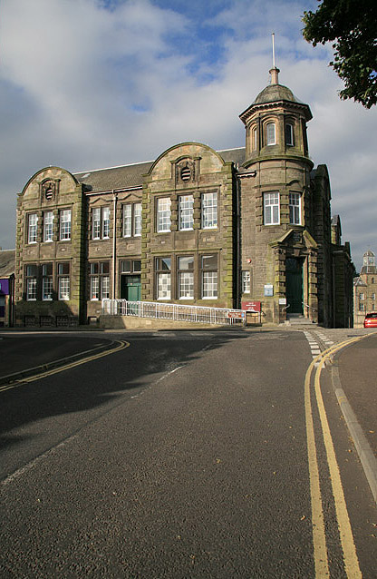 Hawick Public Library The public library is in North Bridge Street. This view is from Duke Street.